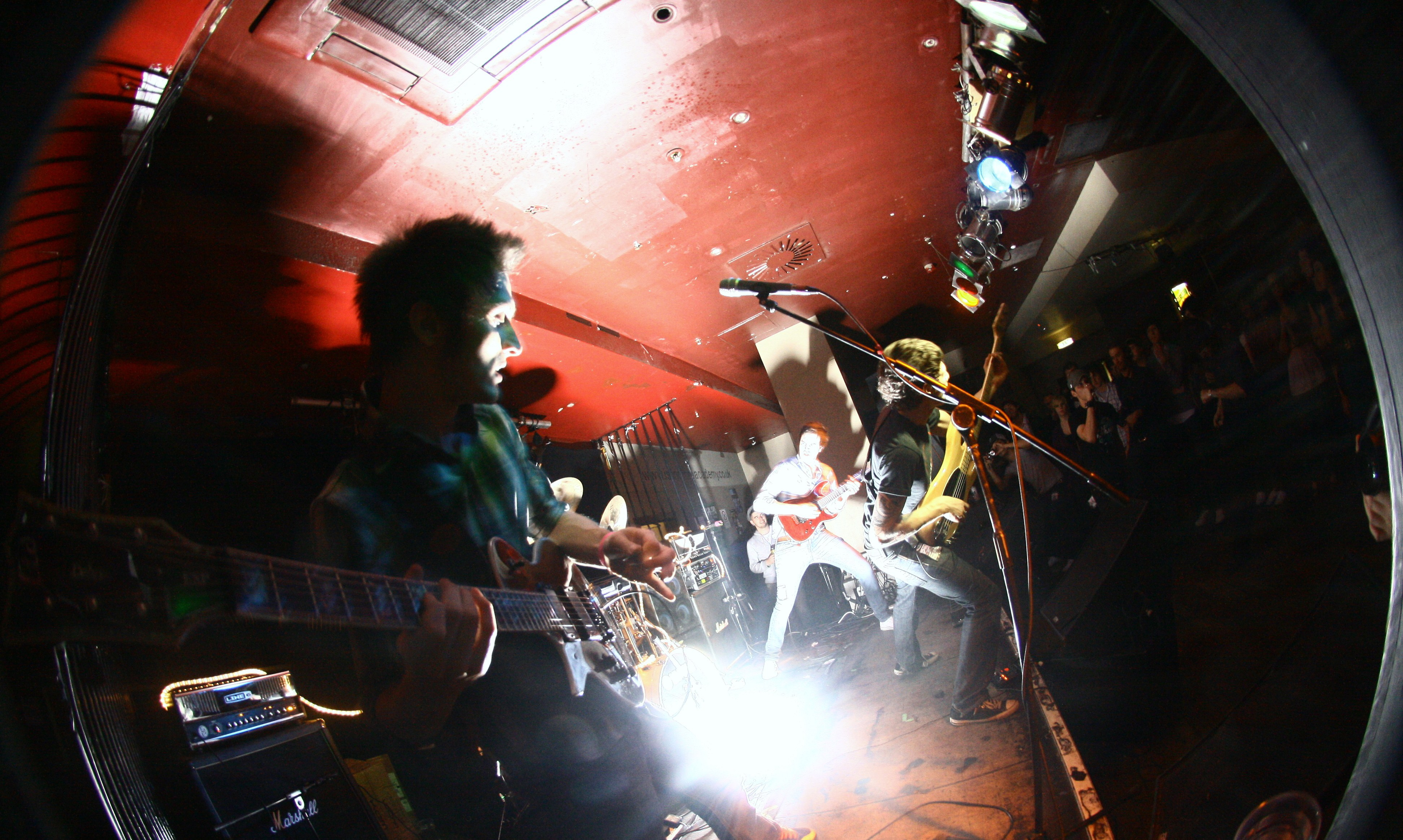 First Signs of Frost at the Islington Bar Academy in London at the 9th November of 2008.